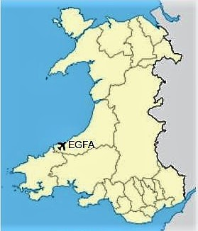 Aberporth Airport location map